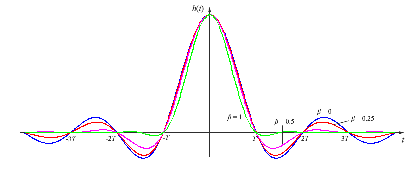 Raised Cosine Filter, Impulse Response